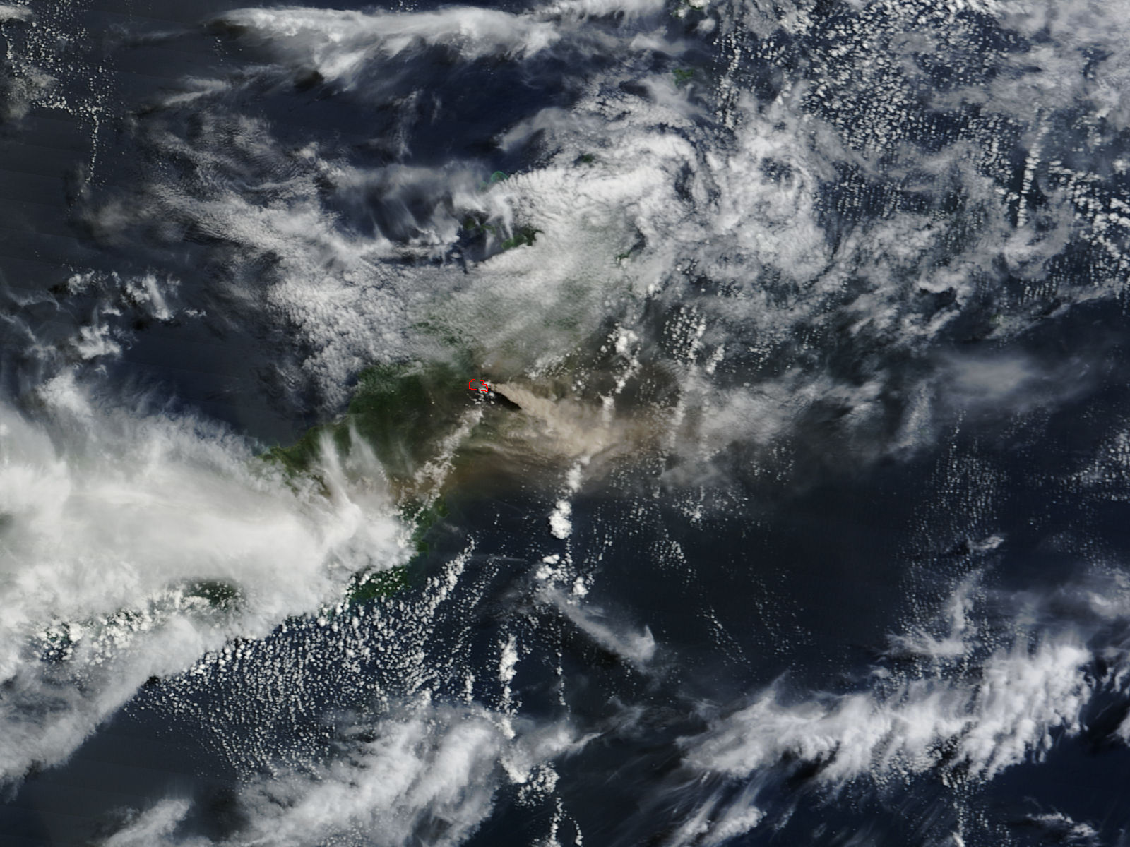 July 3, 2011